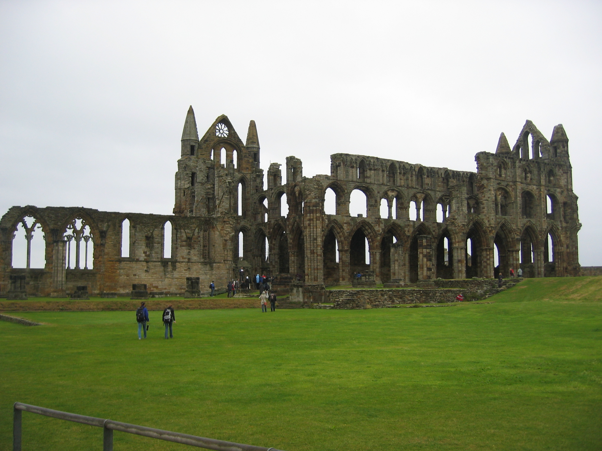 Whitby Abbey